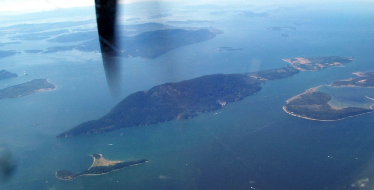 See World Island Info for more on the islands of Washington and American islands. Usable with attribution and link to